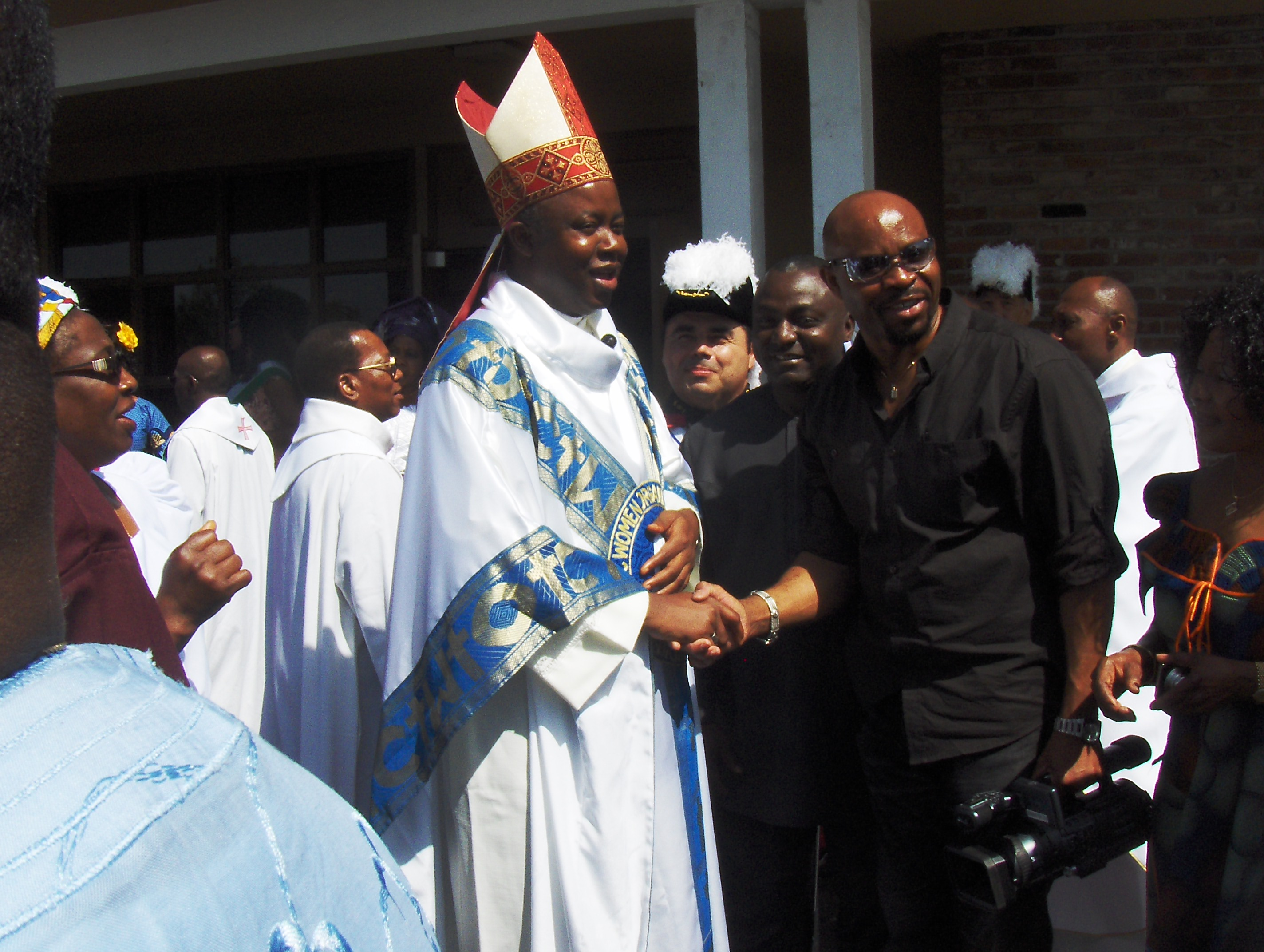 Bishop Callistus Onaga shakes hands after celebrating the Igbo Mass to open its eight annual convention in Sacramento, California on April 24, 2010. This Bishop, visiting from Nigeria, is the guest speaker for the Igbo Catholic Community USA (ICCUSA) Eighth Annual Convention between April 23 and 25, 2010.